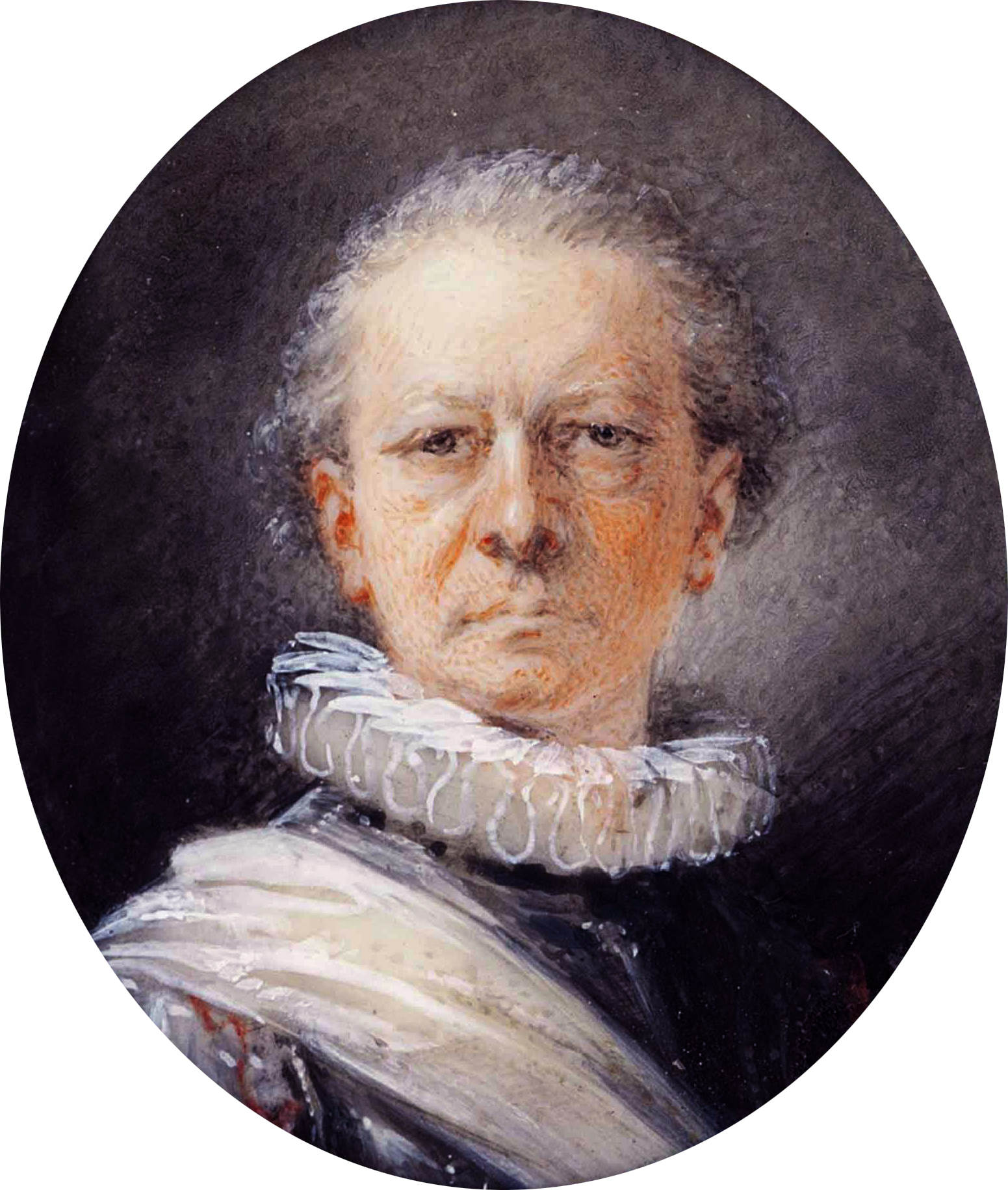 Johann Brockmann (1745-1812) on ivory oval 4.4 cm